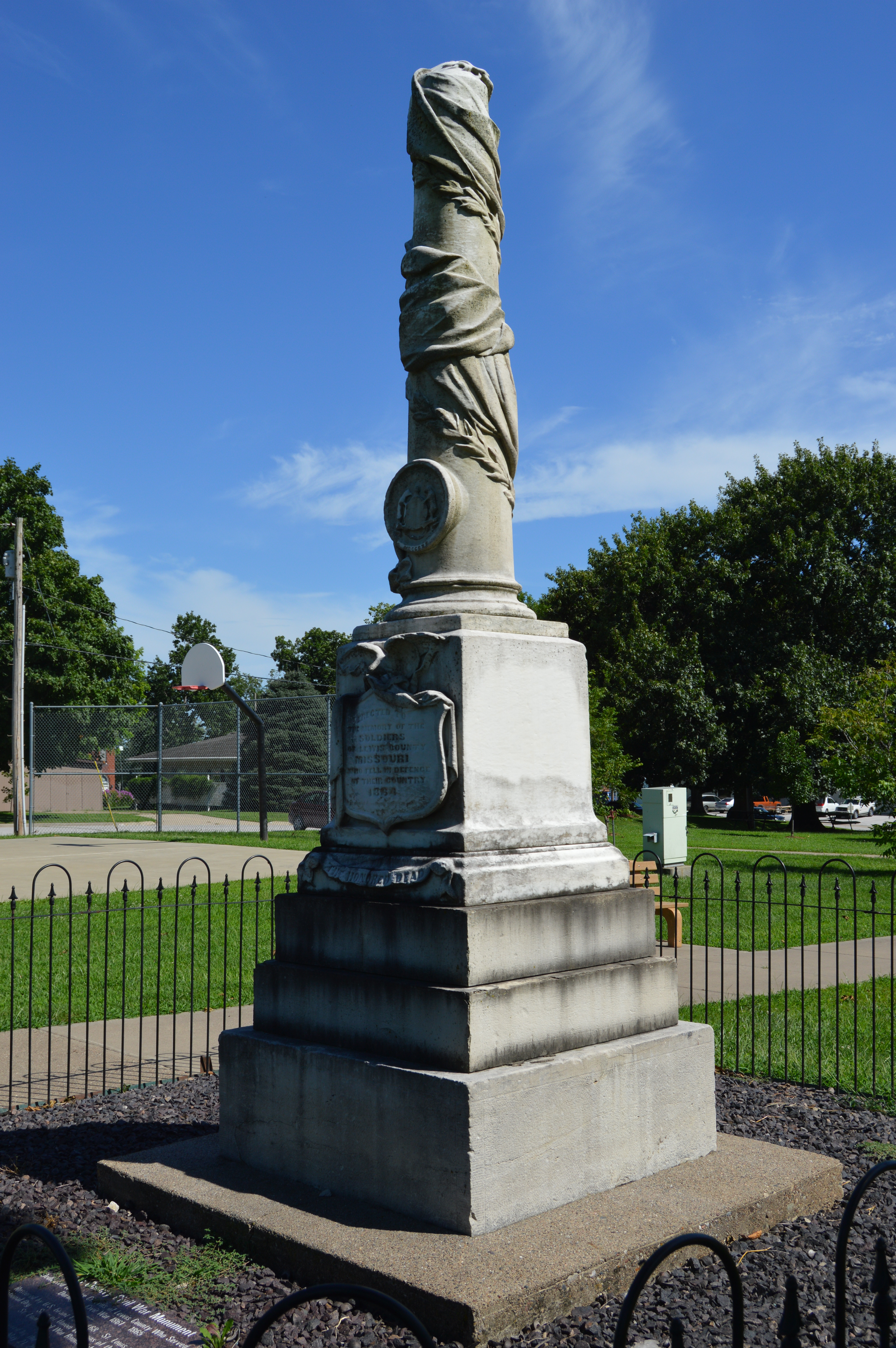 Northern and western sides of the Civil War monument in the public square park in La Grange, Missouri, United States. "1864" is the date of the monument's placement: Lewis County was strongly pro-Confederate, but the monument commemorates Union soldiers.